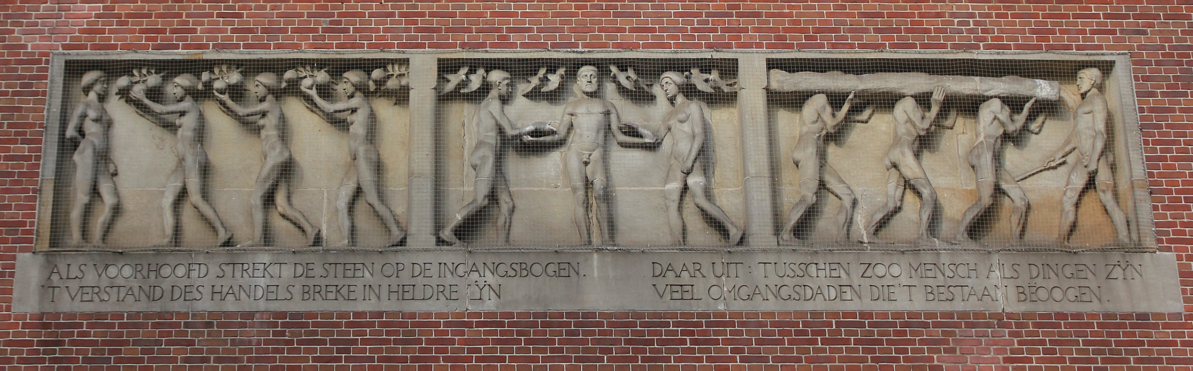 Sculptural panel on the wall of The Beurs van Berlage, Damrak 277, Amsterdam, Amsterdam. Constructed between 1896 and 1903, by architect Hendrik Berlage (1856-1934).